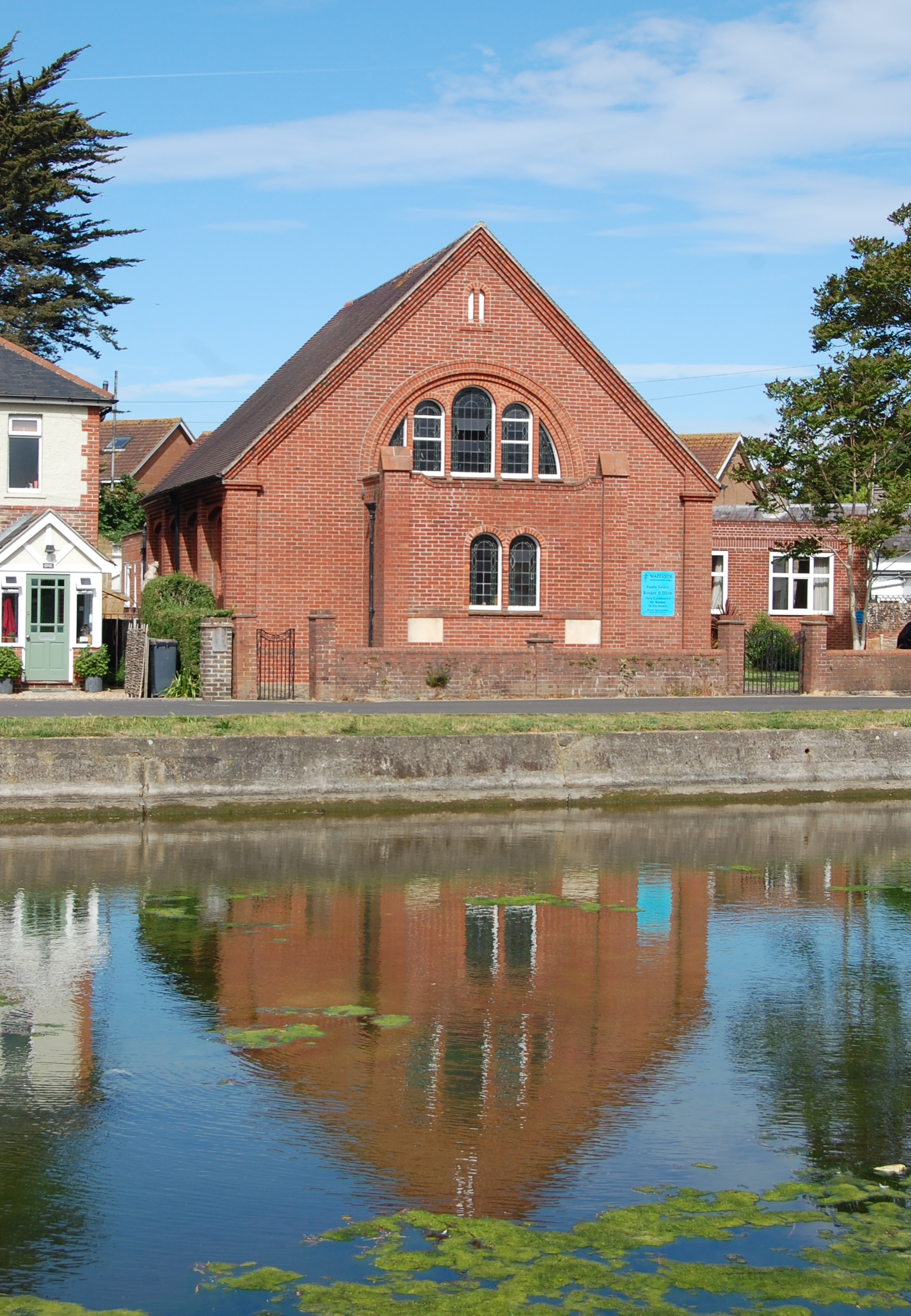 Waterside United Reformed Church, Bath Road, Emsworth, Hampshire, England. Built in 1929 to the design of Camberley-based architect Maurice Lawson.